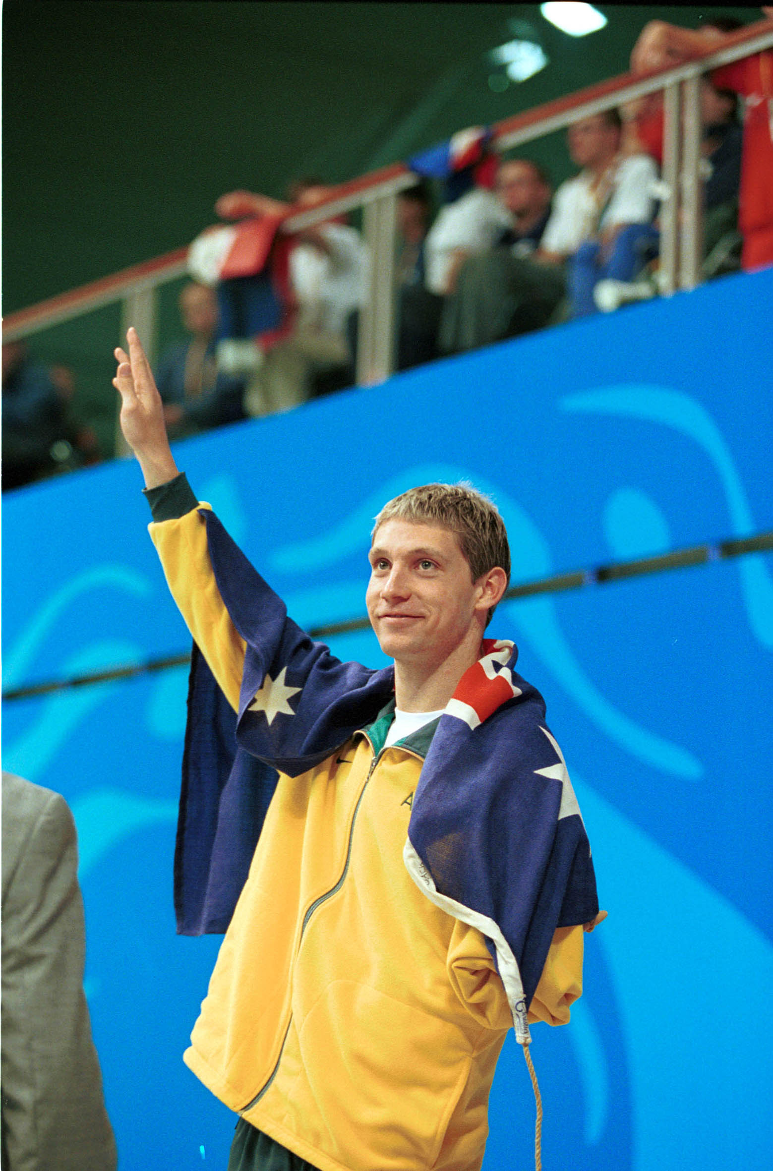 Australian swimmer Ben Austin waves to the crowd as he celebrates his silver medal win in the 200 m medley SM8 event on day 2 of the 2000 Sydney Paralympic Games